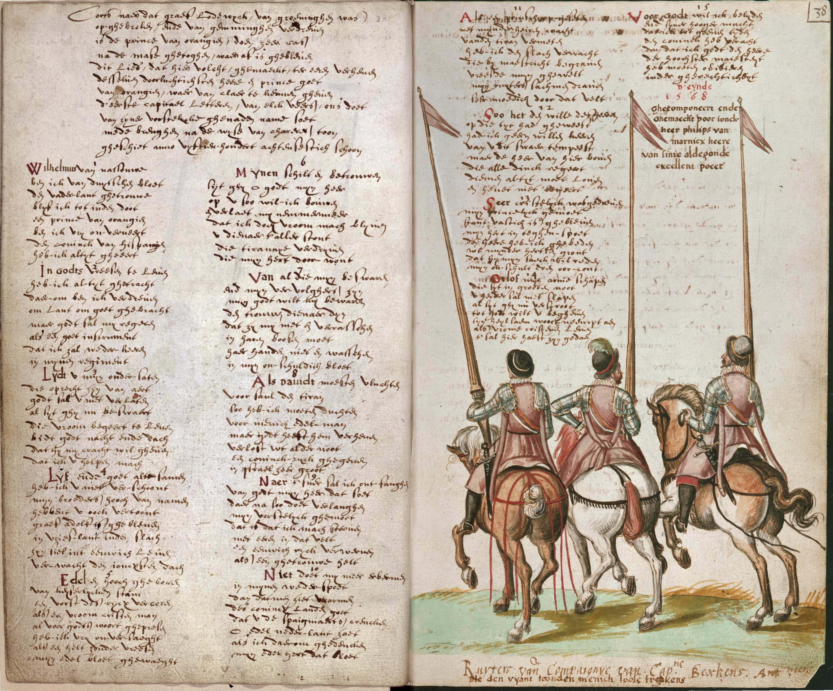 Passage in "handschrift Brussel", first documented publication of the Dutch national anthem. It is a collection of the work of Philips of Marnix, Lord of Saint-Aldegonde. He is referenced as "an excellent poet" on the right side of the page. Water colour painting of three mounted swordsmen in cuirasses with pikes and red split pennants.